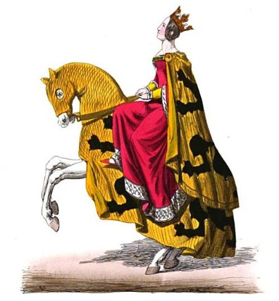 Margaret II of Flanders